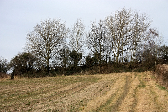 Erosion by ploughing The top end of this field has dropped by at least two metres due to regular ploughing.